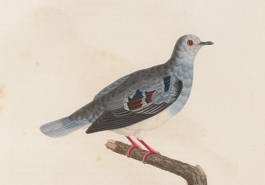 Illustration from Les pigeons. A book by Temminck, C.J. (Coenraad Jacob), - Knip, Pauline de Courcelles, Paris : 1811